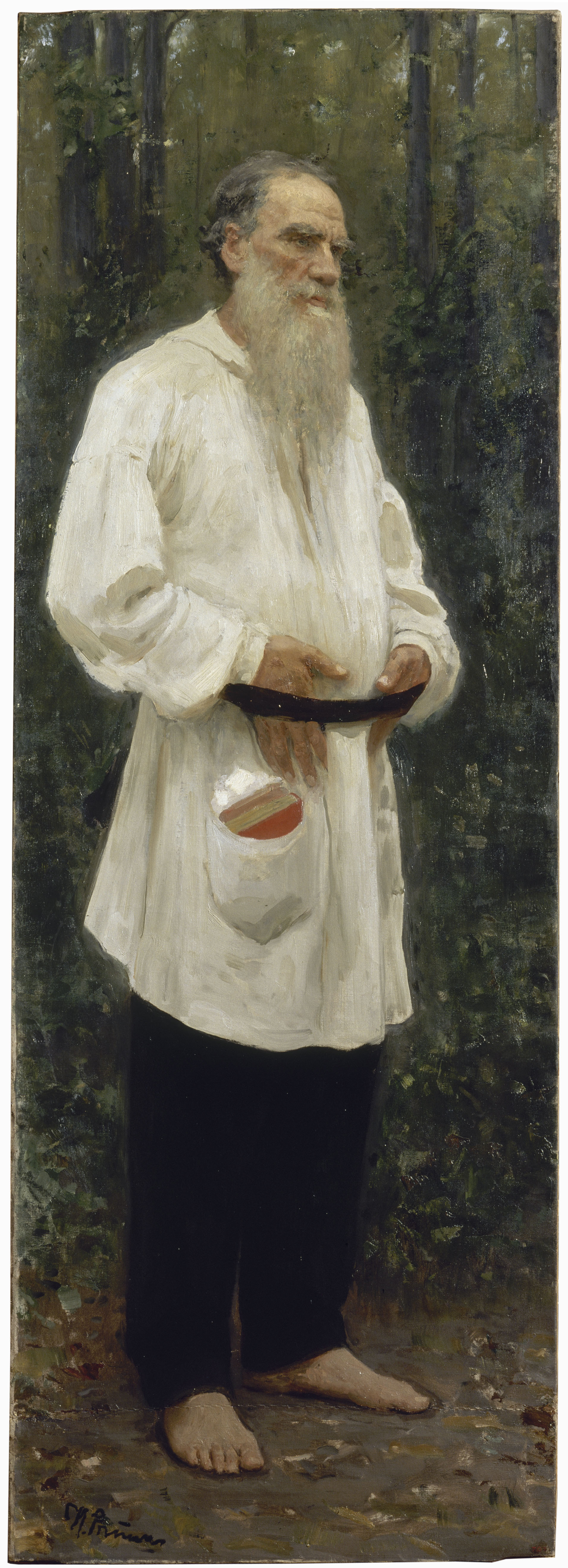 Lev Nikolayevich Tolstoy shoeless. Oil on canvas. 207 × 73 cm. The State Russian Museum, St. Petersburg.